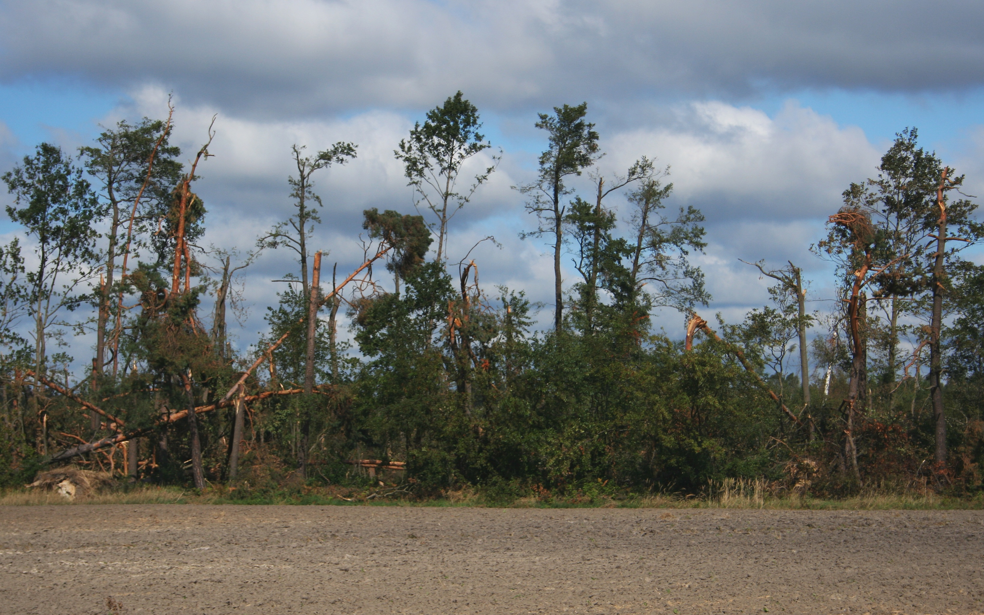 forest after tornado near Koszęcin, Poland